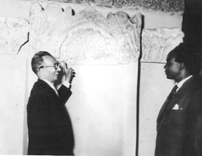 Pahor Labib with Kwame Nkrumah the first president of Ghana in the Coptic Museum.